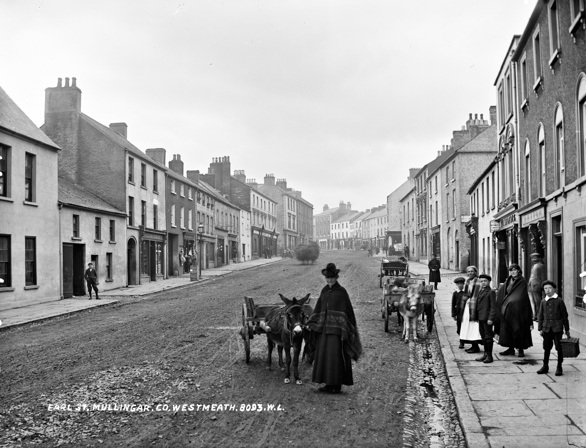 Another fine Lawrence street shot taken by the inimitable Mr. French to start our week! Here we have not only a goodly, straight and clean street but the denizens thereof watching the artist as he takes their image for posterity. Looking at the lady with the donkey and cart dressed in a shawl and bowler hat it strikes me how closely that dress resembles the dress of the women in Peru, Bolivia and Ecuador in the high Andes. Can anybody see the man with one leg? Thanks to all of today's contributors - including to [/photos/66311327@N05/ B-59] and [/photos/gnmcauley/ Niall McAuley] who draw our attention to the street names. Including that the main street we see ("Earl Street") was renamed (to "Pearse Street") in the decades that followed this image, while one of the side-streets has an Irish language street sign (later standardised to "Boithrín Tobar an Sconna")... Photographer: Robert French Collection: Lawrence Photograph Collection Date: between 1880-1900 NLI Ref: L_ROY_08093 You can also view this image, and many thousands of others, on the NLI’s catalogue at